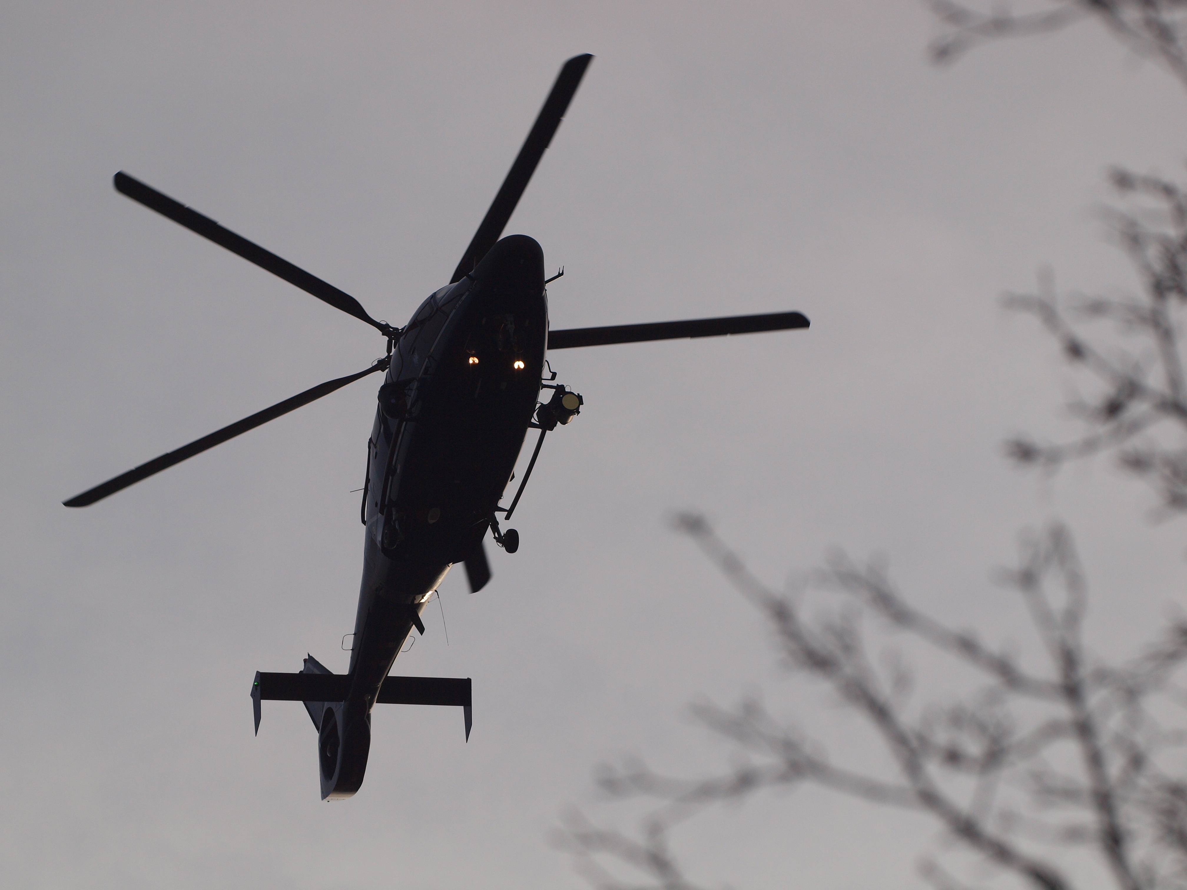 Helicopter Eurocopter EC 155 in flight. The helicopter was spotted in Hannover, Germany. It accompanied a transport of hot nuclear waste from La Hague, France to Gorleben, Germany in November 2011.